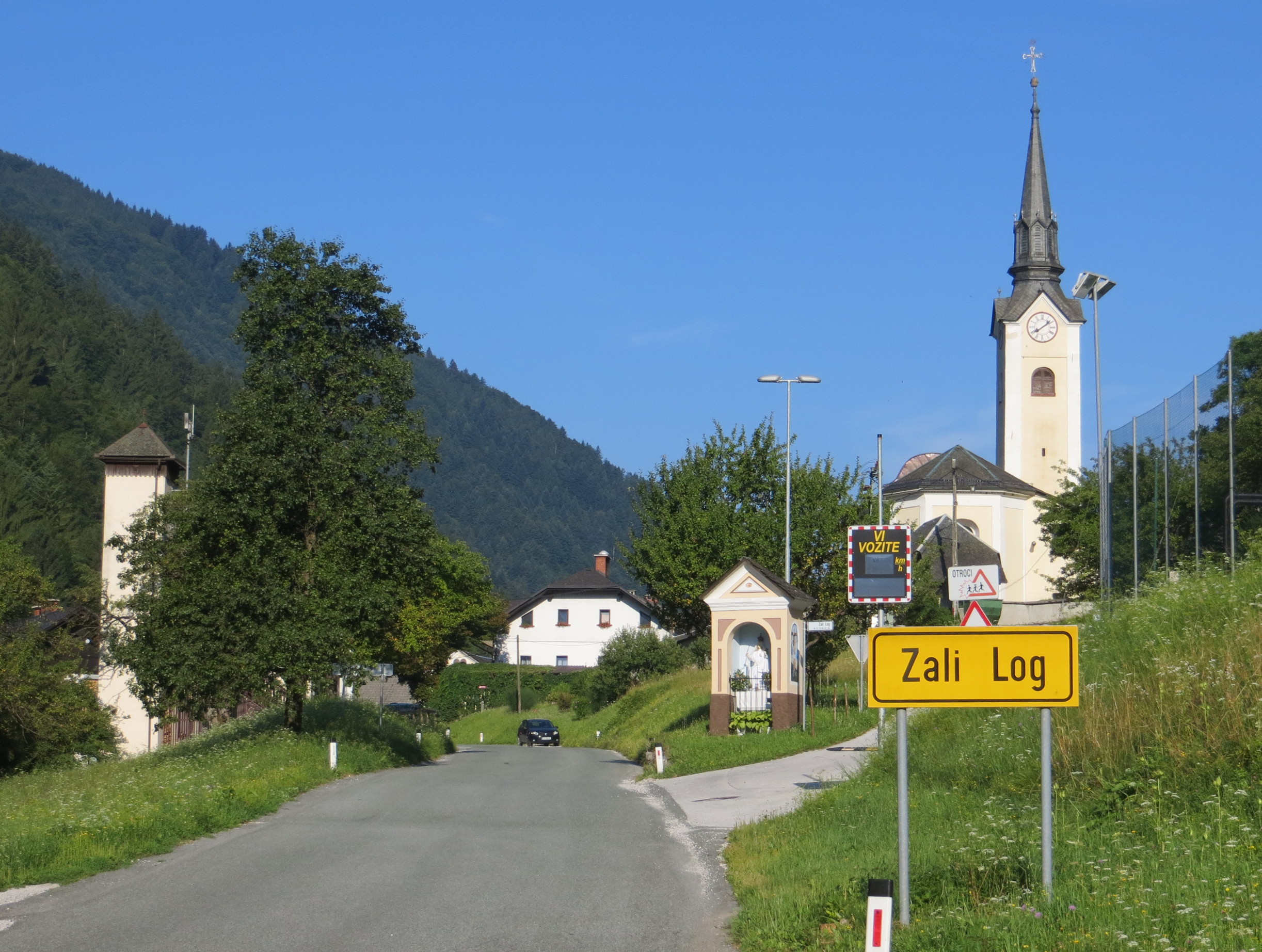 Zali Log, Municipality of Železniki, Slovenia